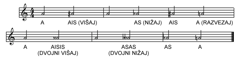 Musical notation.